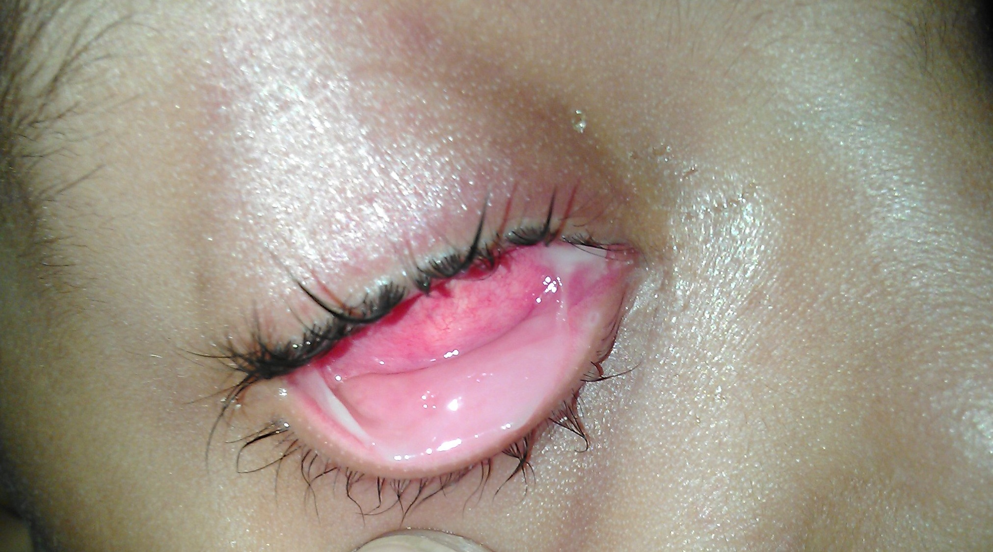 5 years old boy presented with inability to open right eye